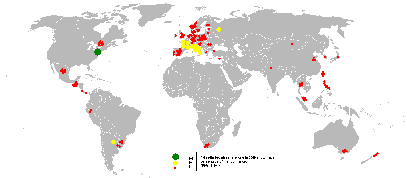 This bubble map shows the global distribution of FM radio broadcast stations in 2006 as a percentage of the top market (USA - 8,961). This map is consistent with incomplete set of data too as long as the top producer is known. It resolves the accessibility issues faced by colour-coded maps that may not be properly rendered in old computer screens. Data was extracted on 20th December 2007 from Based on :Image:BlankMap-World.png